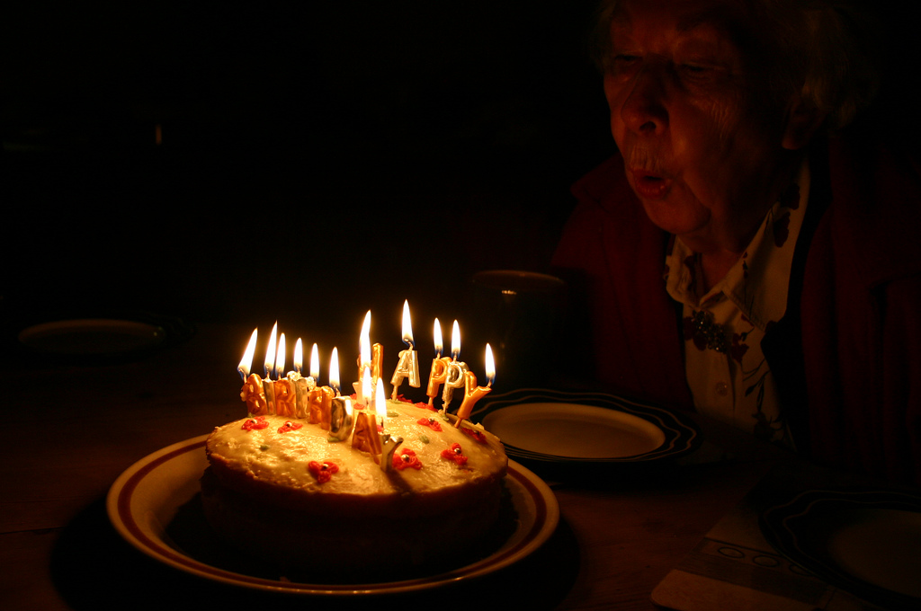 Birthday 2011